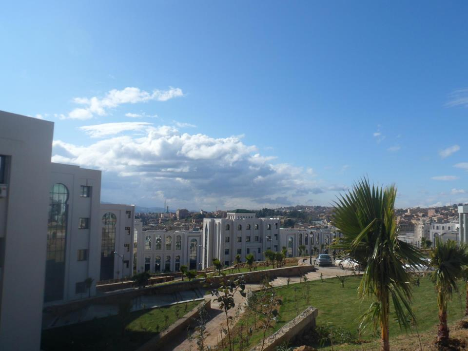 The University Of Medea